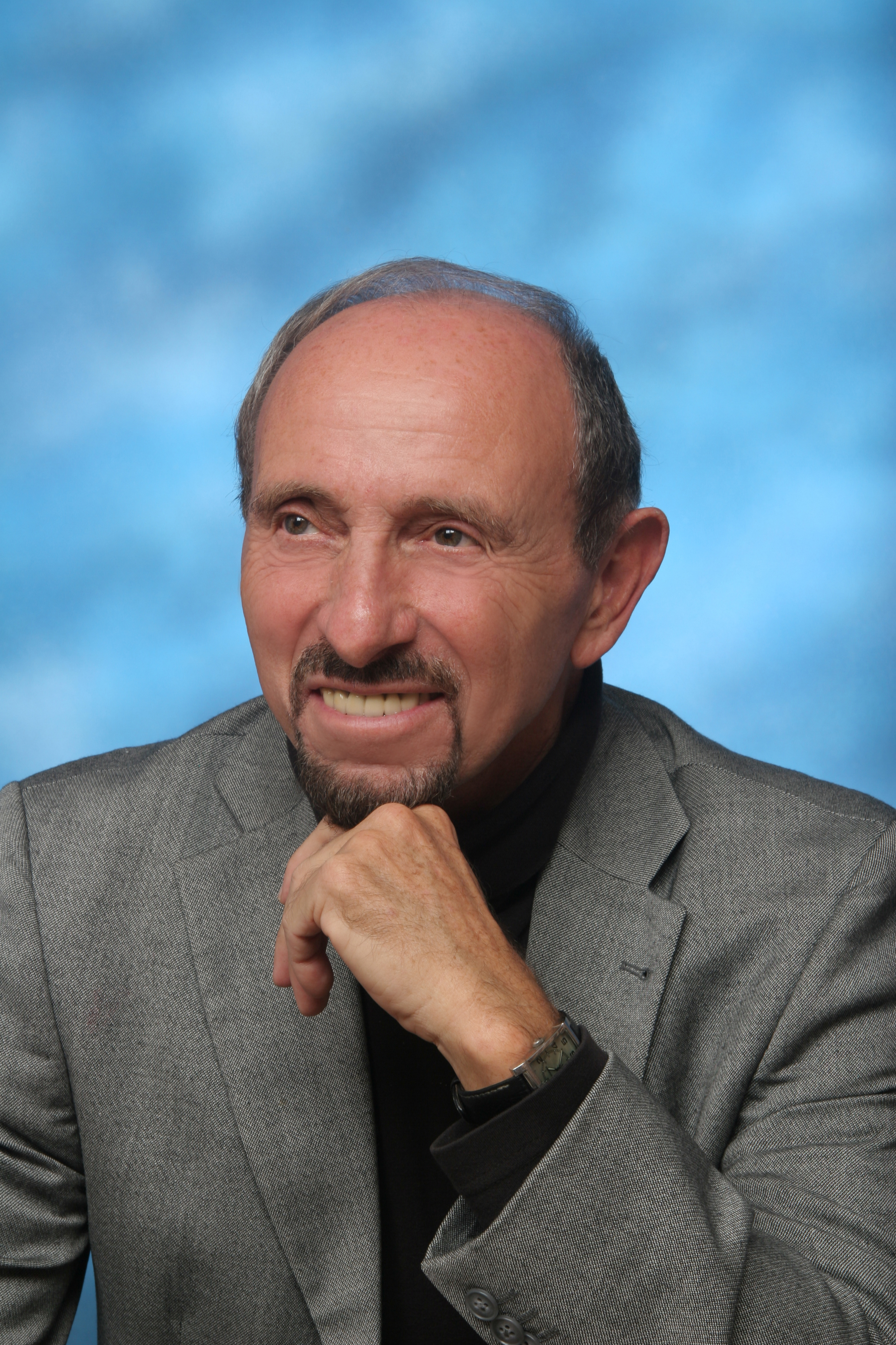 this is my picture